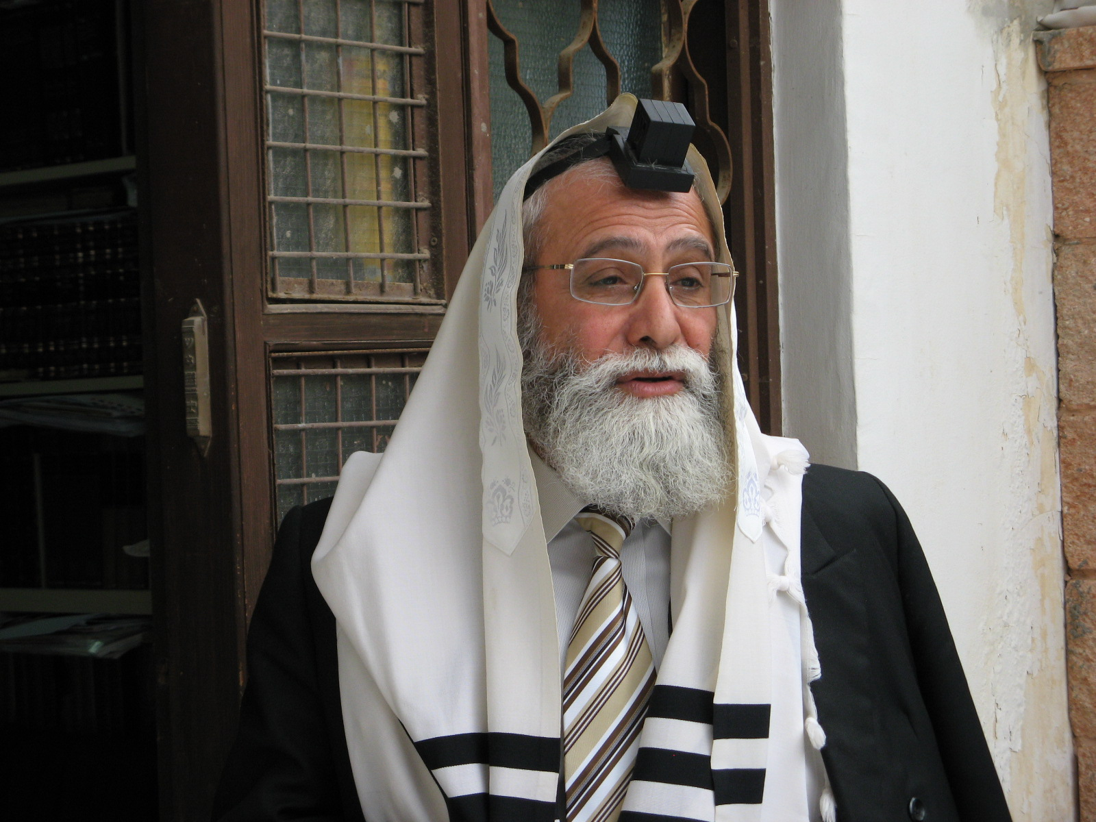 rabbi shalom nagar